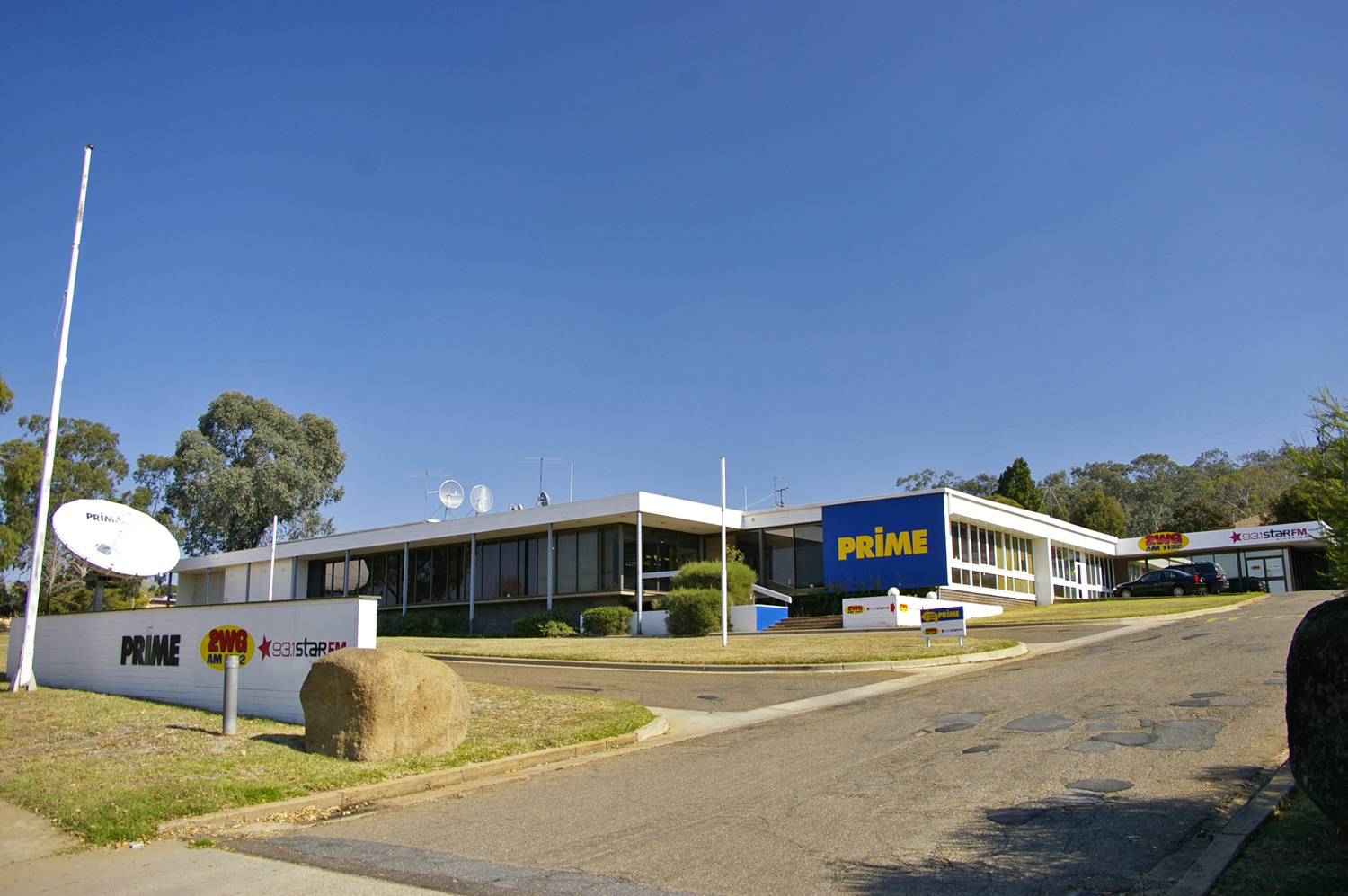 Prime, 2WG and Star FM broadcasting studios. Wagga Wagga, New South Wales